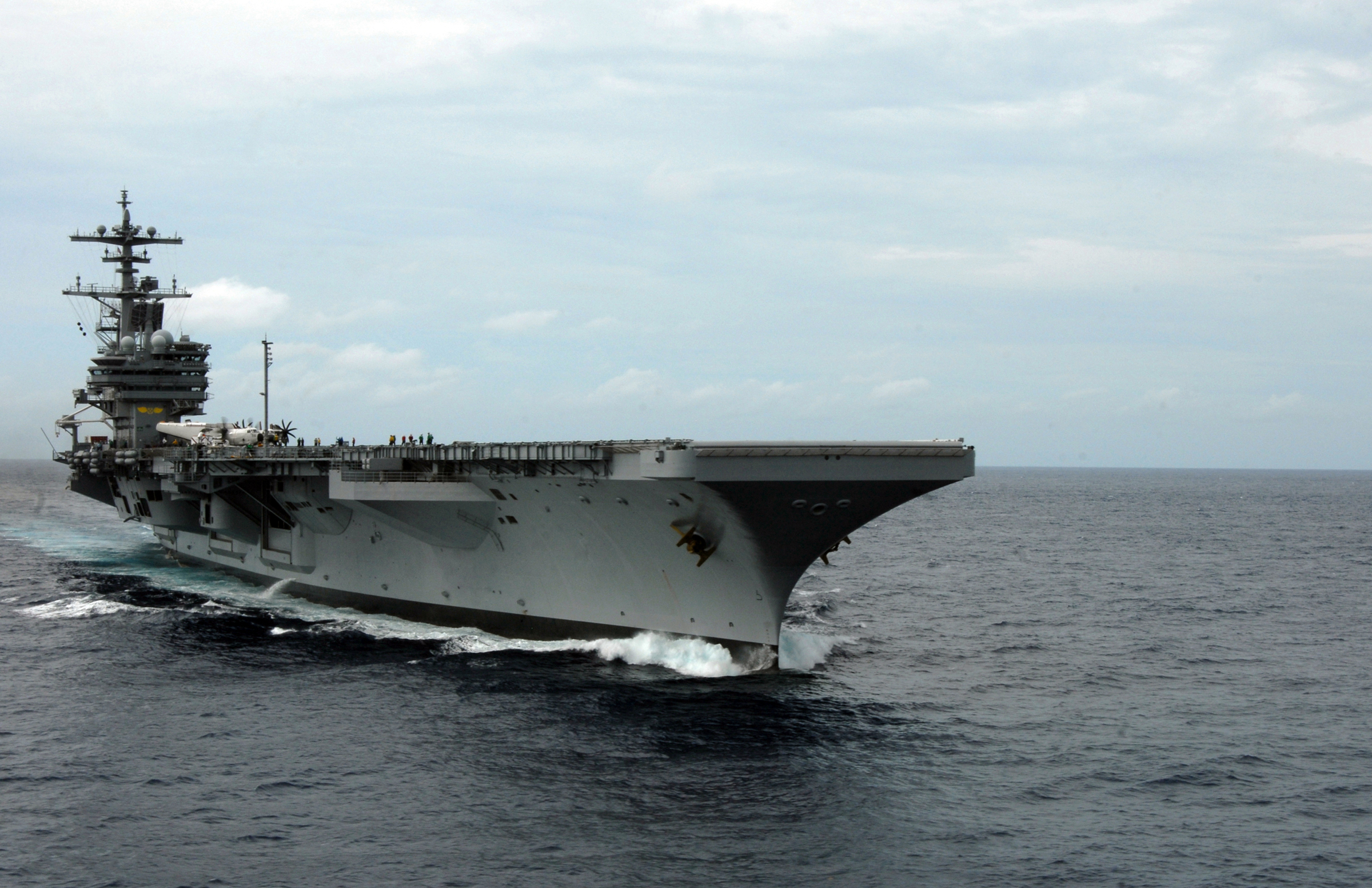 ATLANTIC OCEAN (June 7, 2009) The U.S. Navy's newest Nimitz-class aircraft carrier USS George H. W. Bush (CVN 77) underway in the Atlantic Ocean conducting carrier qualifications. (U.S. Navy photo by Mass Communication Specialist 1st Class Demetrius L. Patton/Released)